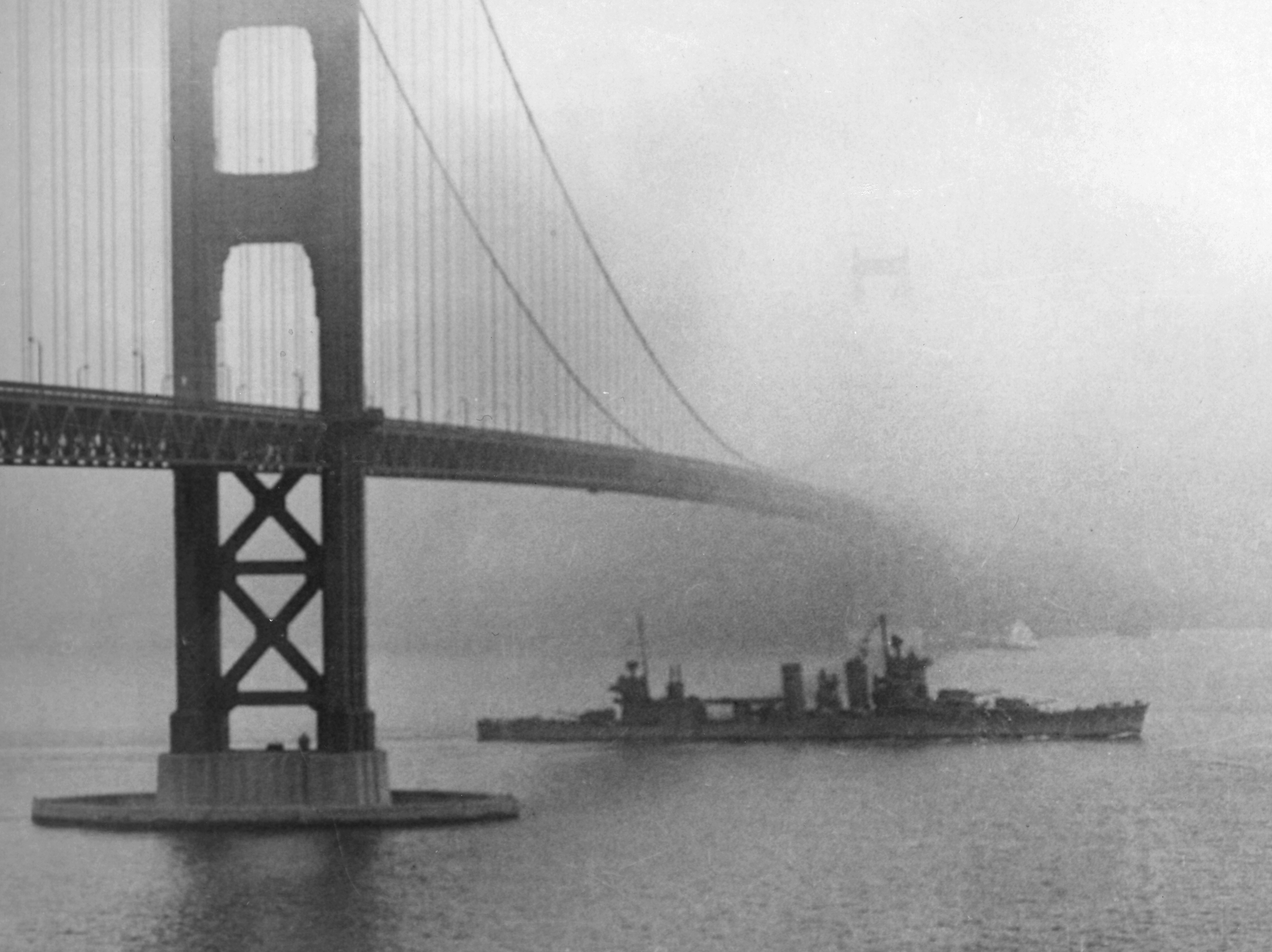 The U.S. Navy heavy cruiser USS San Francisco (CA-38) steams under the Golden Gate Bridge to enter San Francisco Bay, California (USA), on a foggy 11 December 1942. She was en route to the Mare Island Naval Shipyard for battle damage repairs.